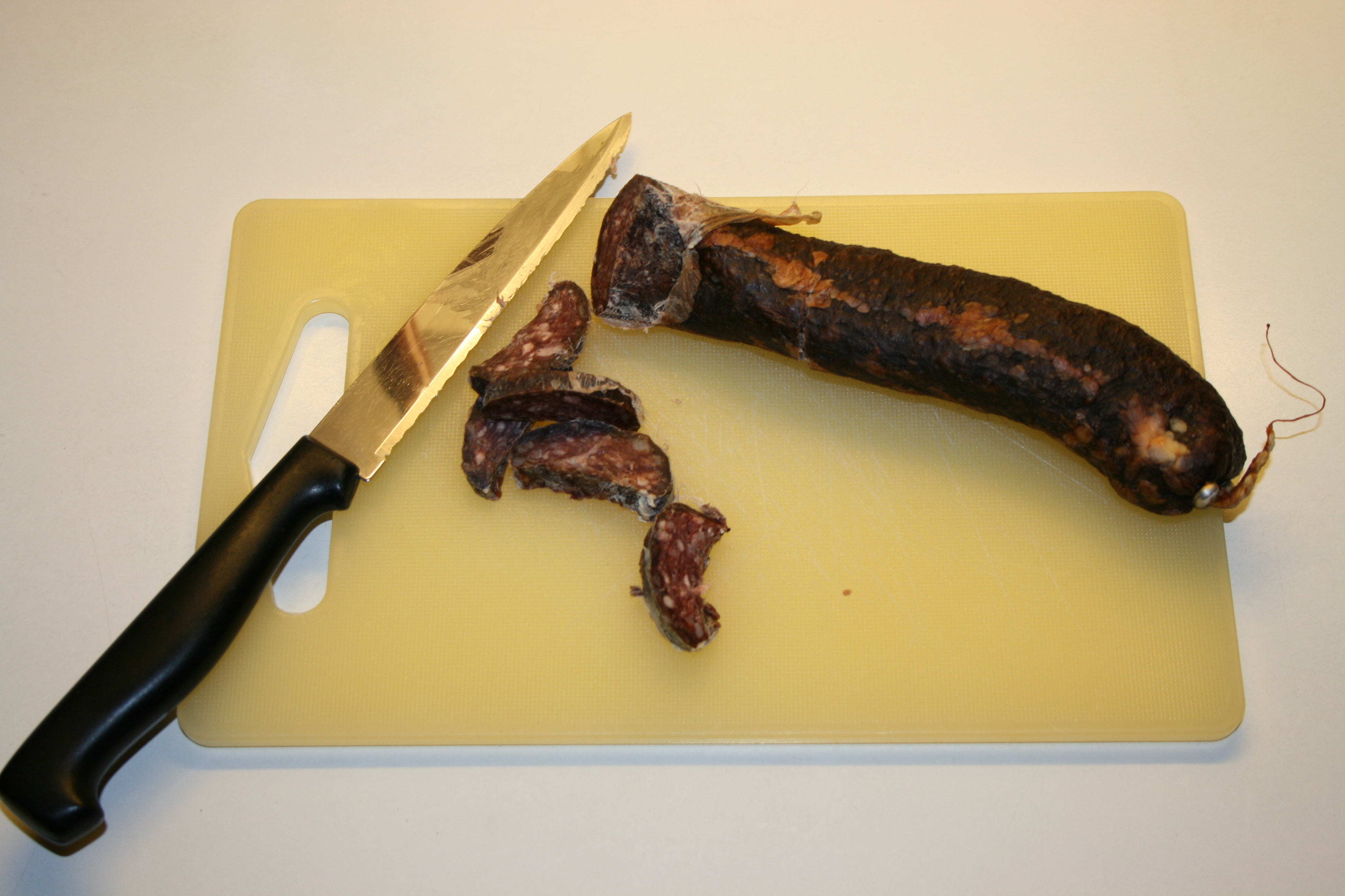 Norwegian "morrpølse", a kind of dry sausage, both sliced and unsliced